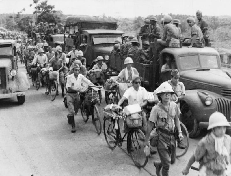 British Reoccupation of Singapore, 1945 Men of the 5th Indian Division watch disarmed Japanese soldiers leave the city of Singapore for prisoner of war camps.